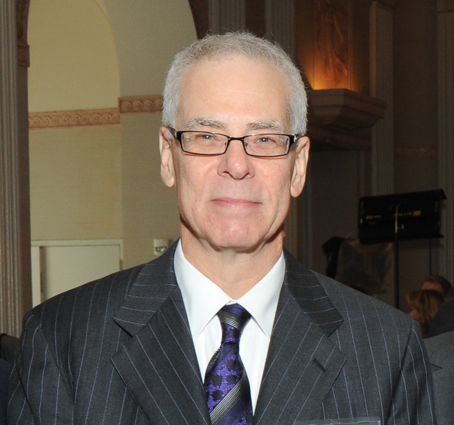 Ben Manilla at the 72nd Annual Peabody Awards luncheon, in May 2013, held at the Waldorf-Astoria Hotel, in New York. PHOTO CREDIT: ANDERS KRUSBERG / PEABODY AWARDS